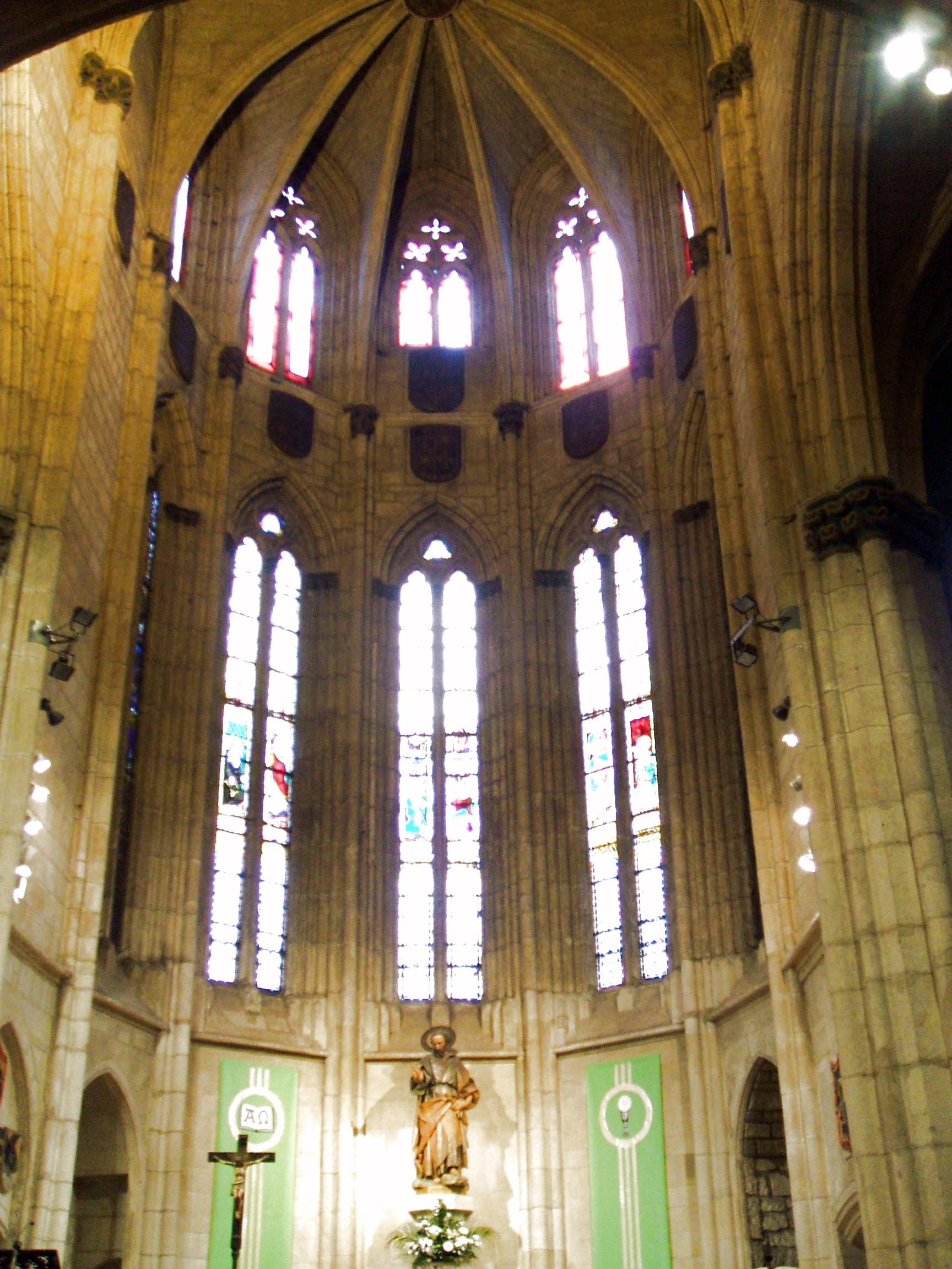 Cabecera y altar mayor de la iglesia de San Pedro Apóstol de Vitoria-Gasteiz (Euskadi, España)